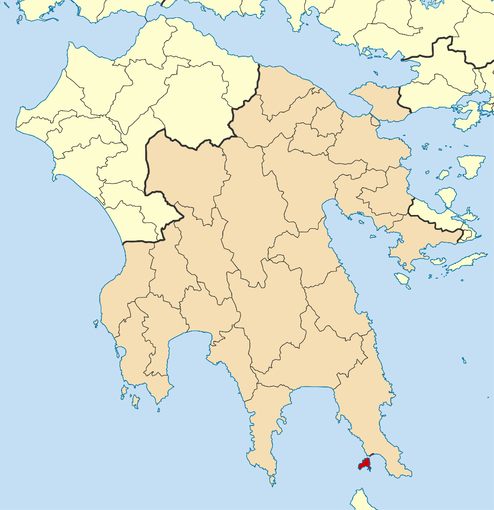 Locator map for Elafonisos municipality in Greek region Peloponnese (2011)